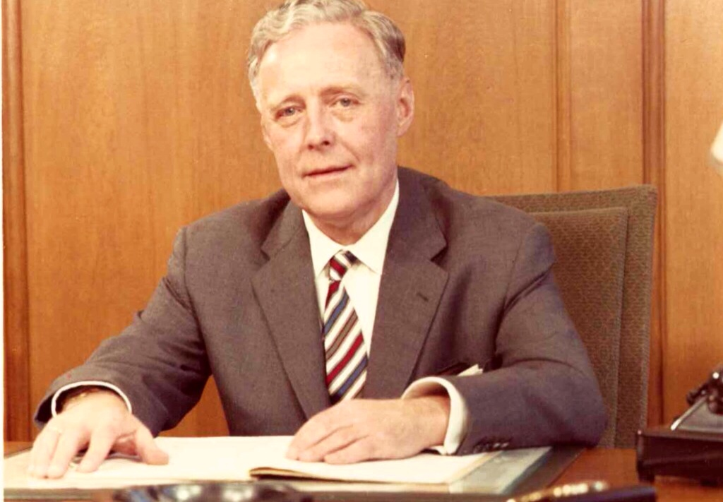 Otto A. Friedrich, ca. 1950